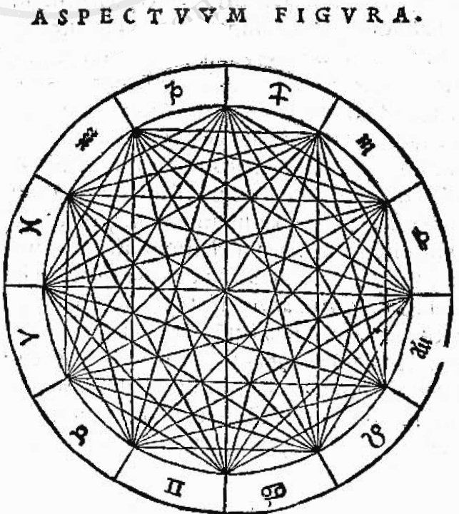 Figure depicting how the cusps of the several signs regard each other by aspect. From the 1533 Hervagius edition of Ptolemy's Tetrabiblos, published in Basel. Latin text by Plato of Tivoli.